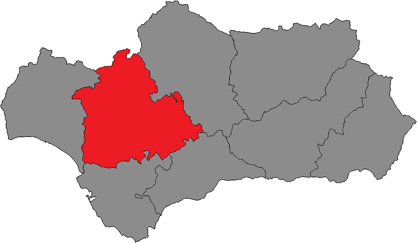 Andalusian Parliament district of Seville.